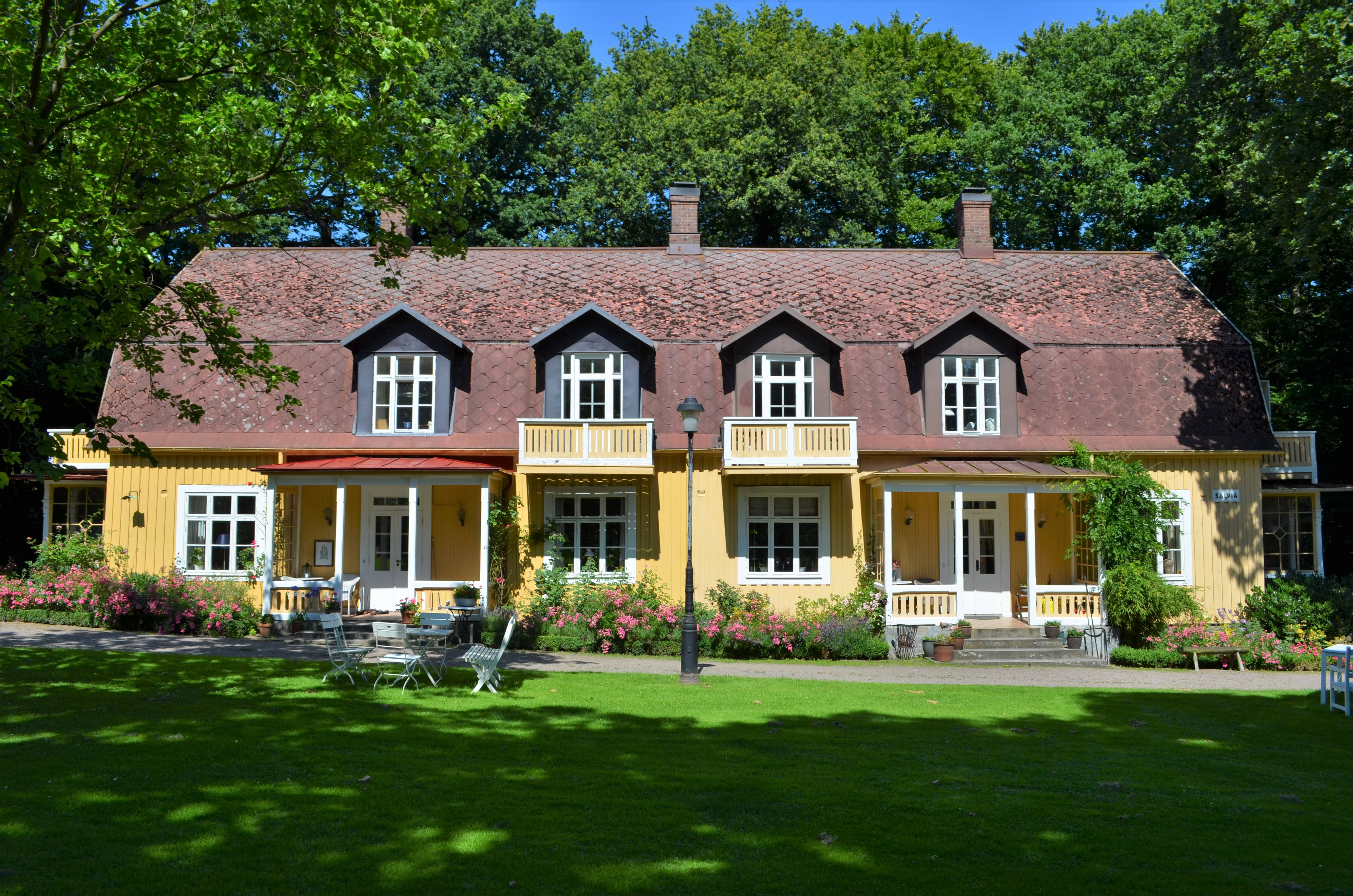 Villa Salvia in Ramlösa hälsobrunn.